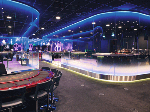 Interieur van Holland Casino Rotterdam